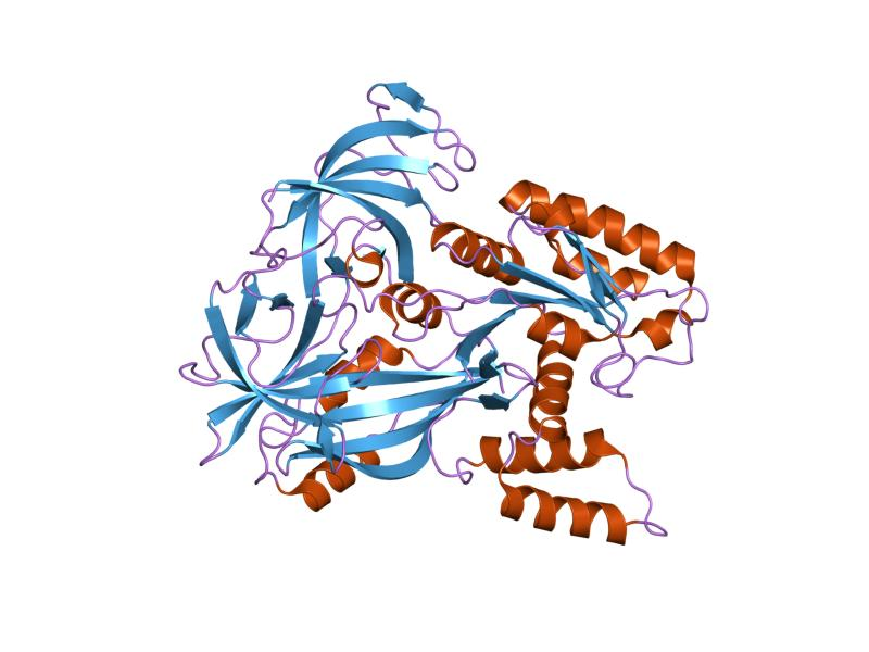 Cartoon representation of the molecular structure of protein registered with 2b7c code.